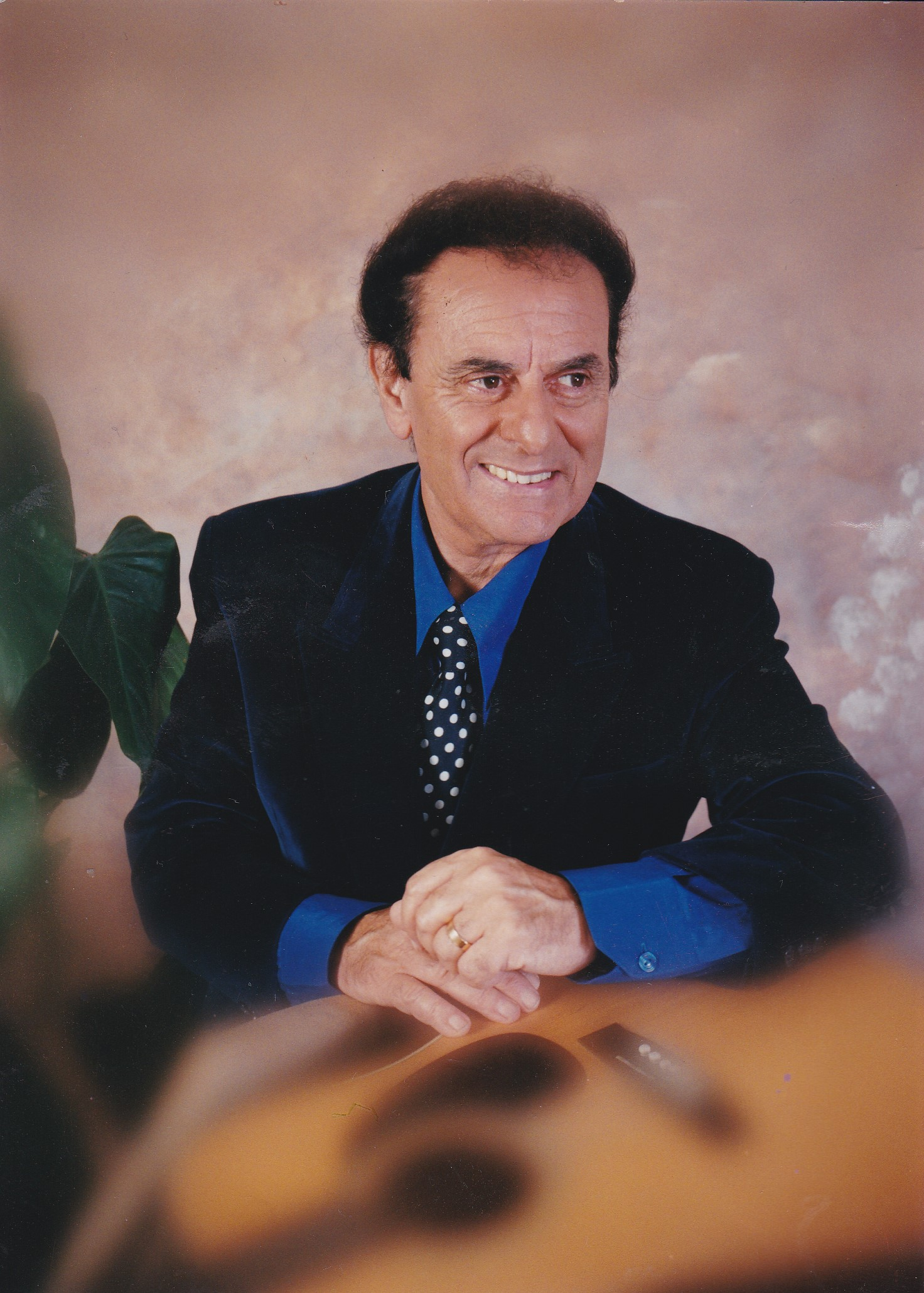 Joe Grech